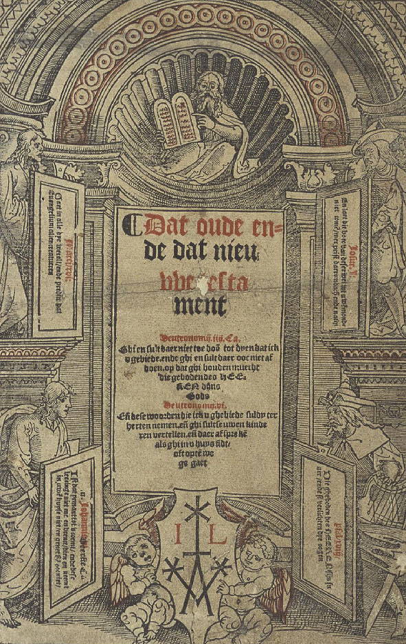 front page of the bible by Jacob van Liesvelt, the first complete translation of the Old and New Testament into Dutch, printed in Antwerpen 1526